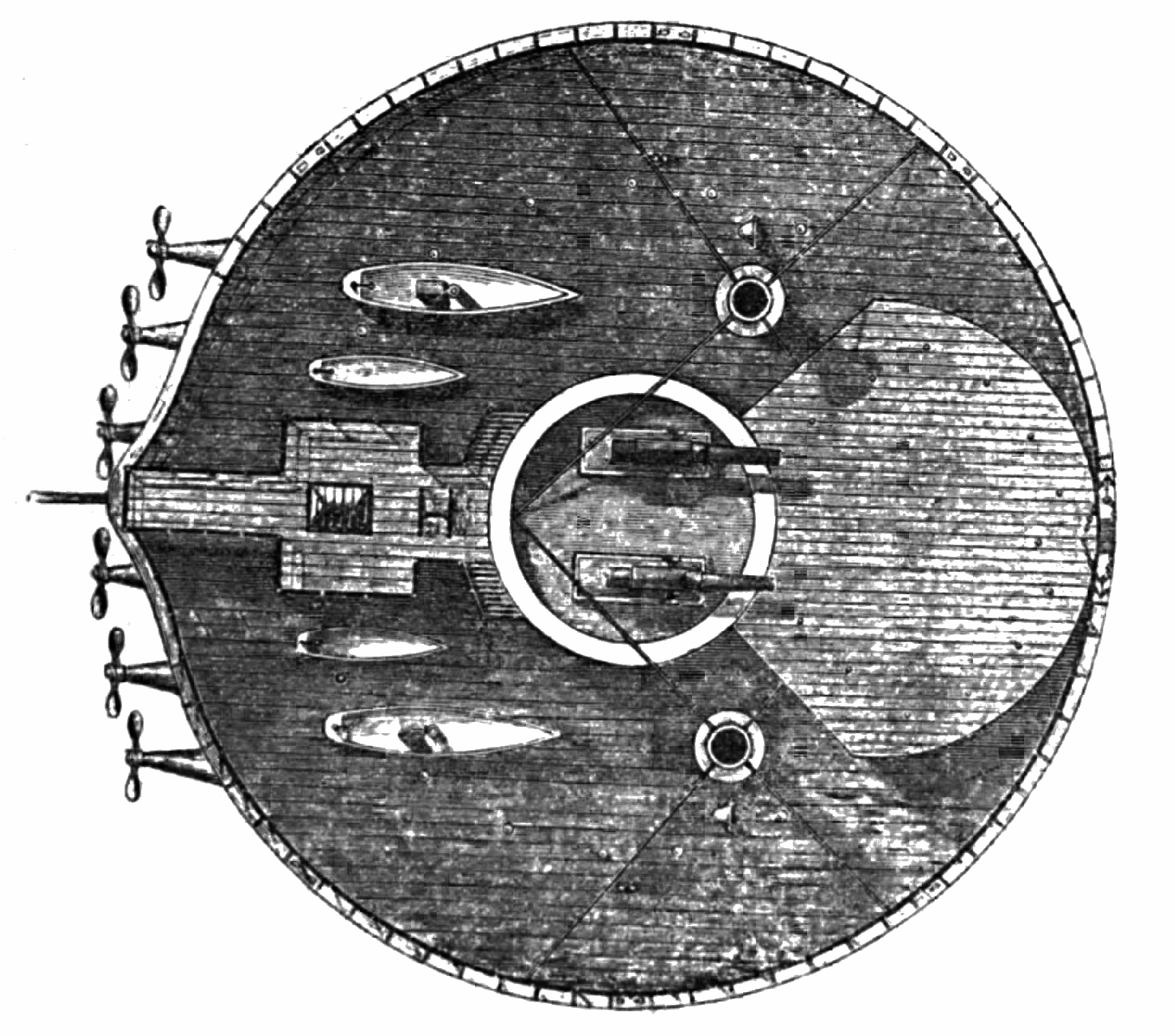 The deck of the Novgorod circular ironclad Illustration from Eardley-Wilmot: The Development of Navies